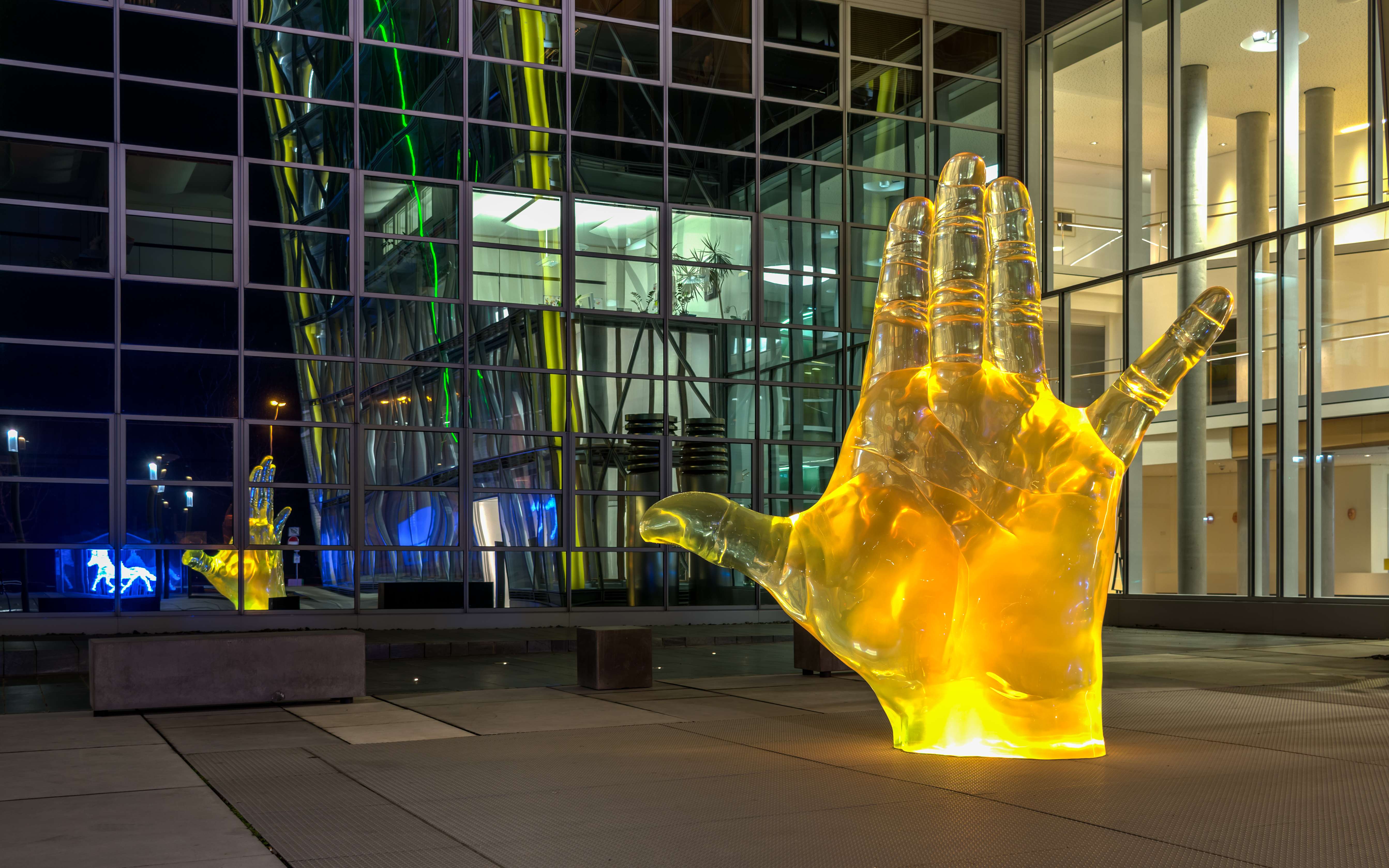 Sculpture “Body and Soul” (Duk-Kyu Ryang, 2015) in front of the office building of the LVM, Münster, North Rhine-Westphalia, Germany